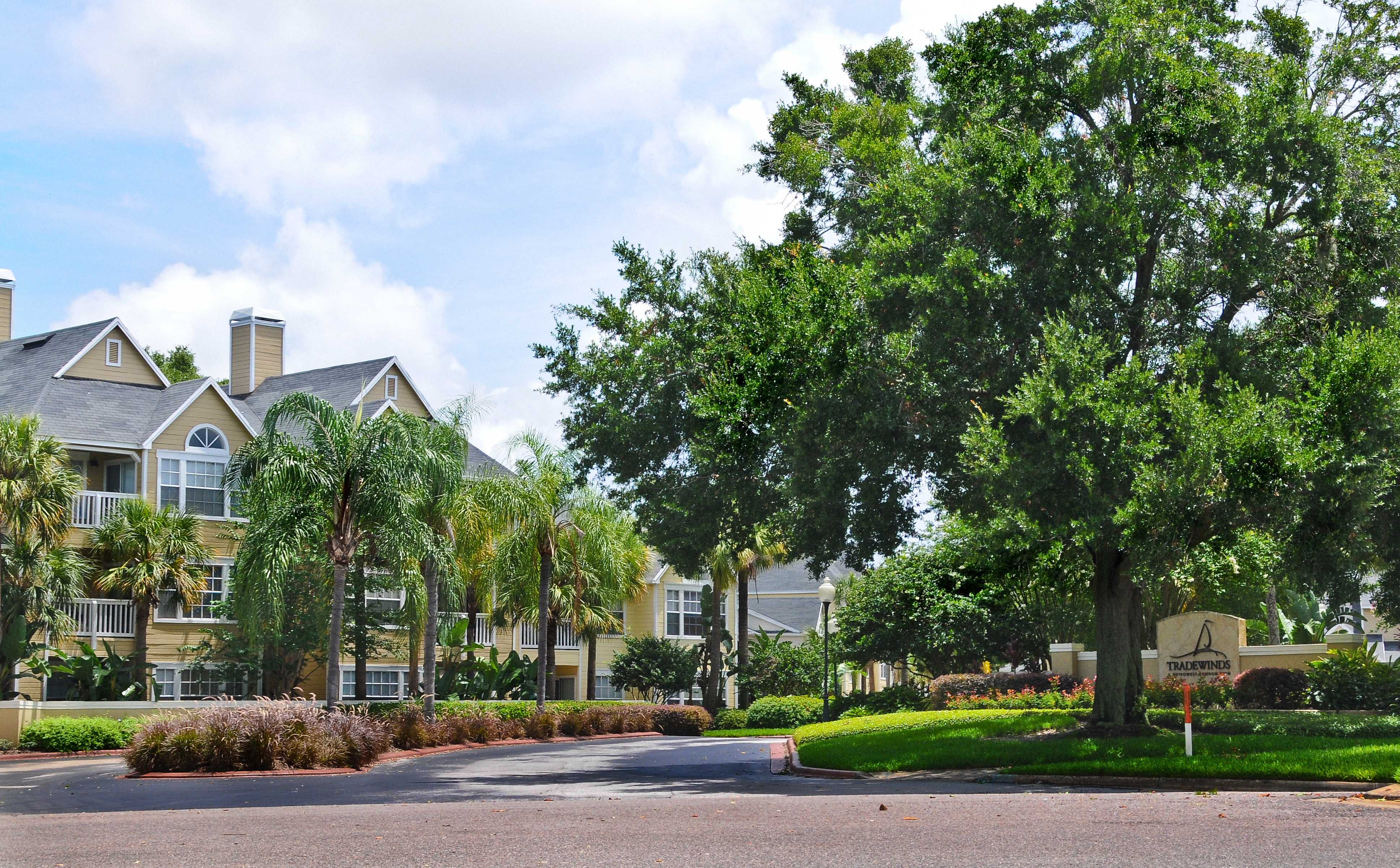 The Tradewinds is a condominium complex along S. Hiawassee Rd MetroWest in Orlando, Florida.